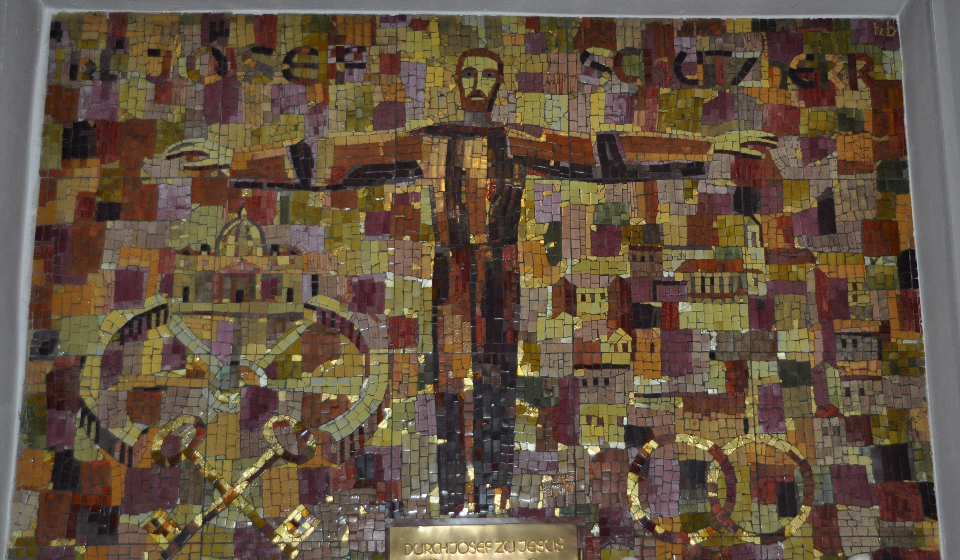 Joseph altar, by Hans Babuder, Friedenskirche, Linz, Austria